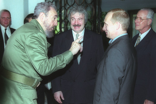 HAVANA. President Putin with Fidel Castro, Chairman of the Cuban State Council and Council of Ministers.